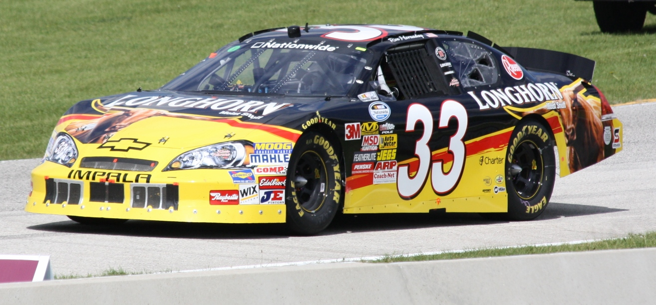 The NASCAR racecar for driver Ron Hornaday at the 2010 Bucyrus 200 at Road America.